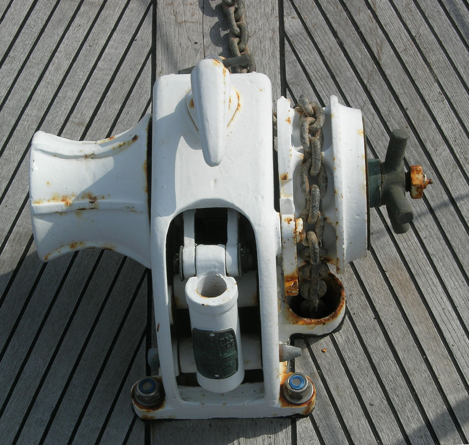 Windlass a sailing boat